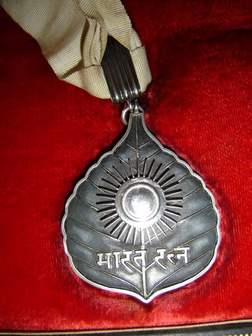 Bharat Ratna medal of Mokshagundam Visvesvarayya, image taken with permission of his great nephew, Mr. Satish